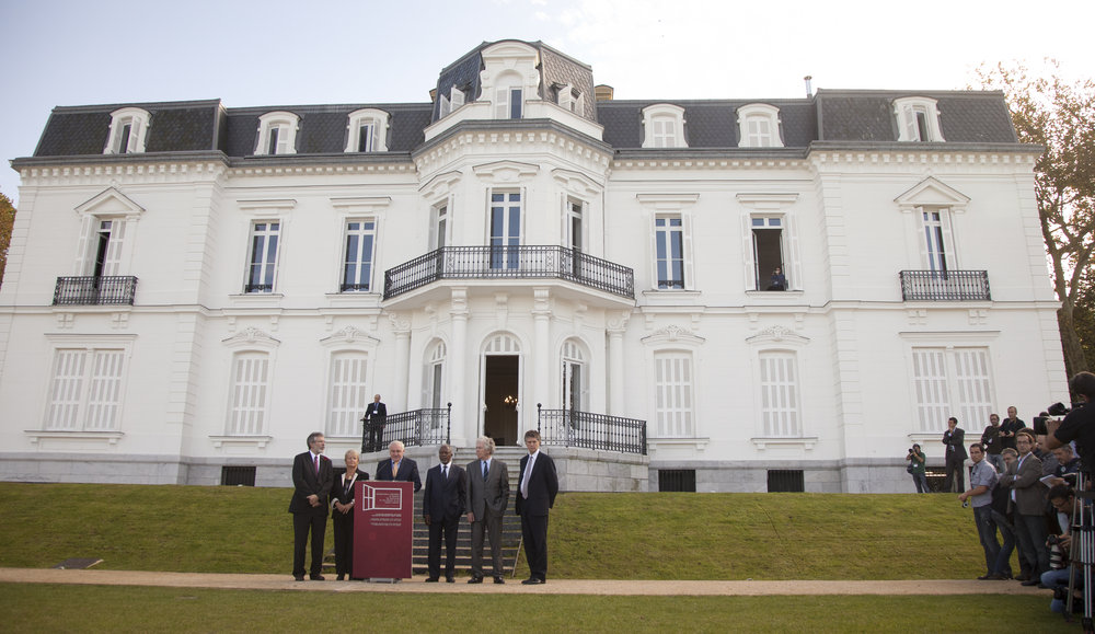 Declaration of the International Conference to Promote the resolution of the conflict in the Basque Country